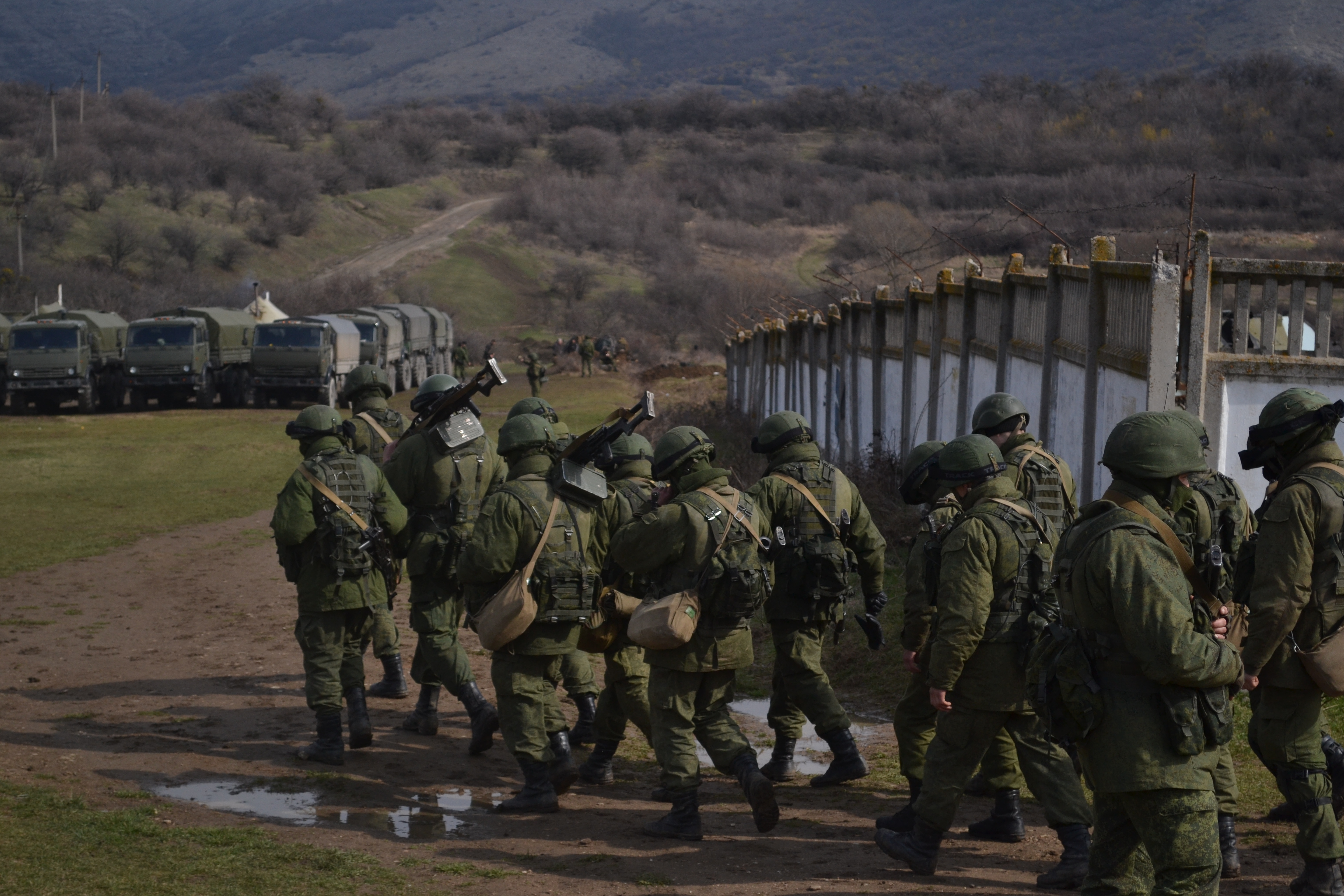 Military base at Perevalne during the 2014 Crimean crisis.